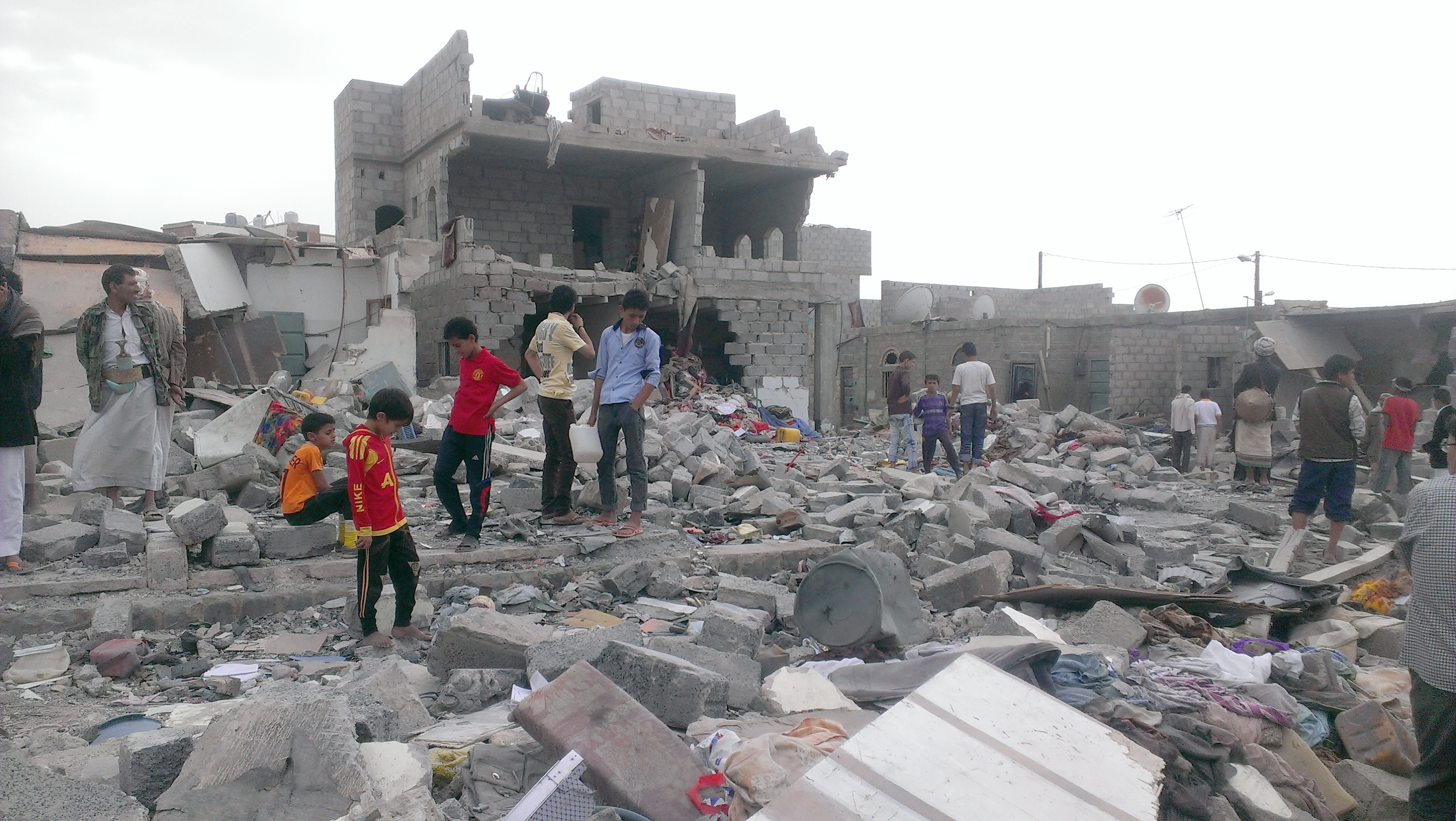 Original description: "This neighborhood, where more than 100 buildings have been damaged, has brought attention to the plight of Yemeni blacks, with neighboring communities coming to witness the damage, Sana'a, Oct. 9, 2015. (Almigdad Mojalli/VOA)"